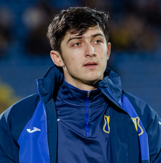 Sardar Azmoun